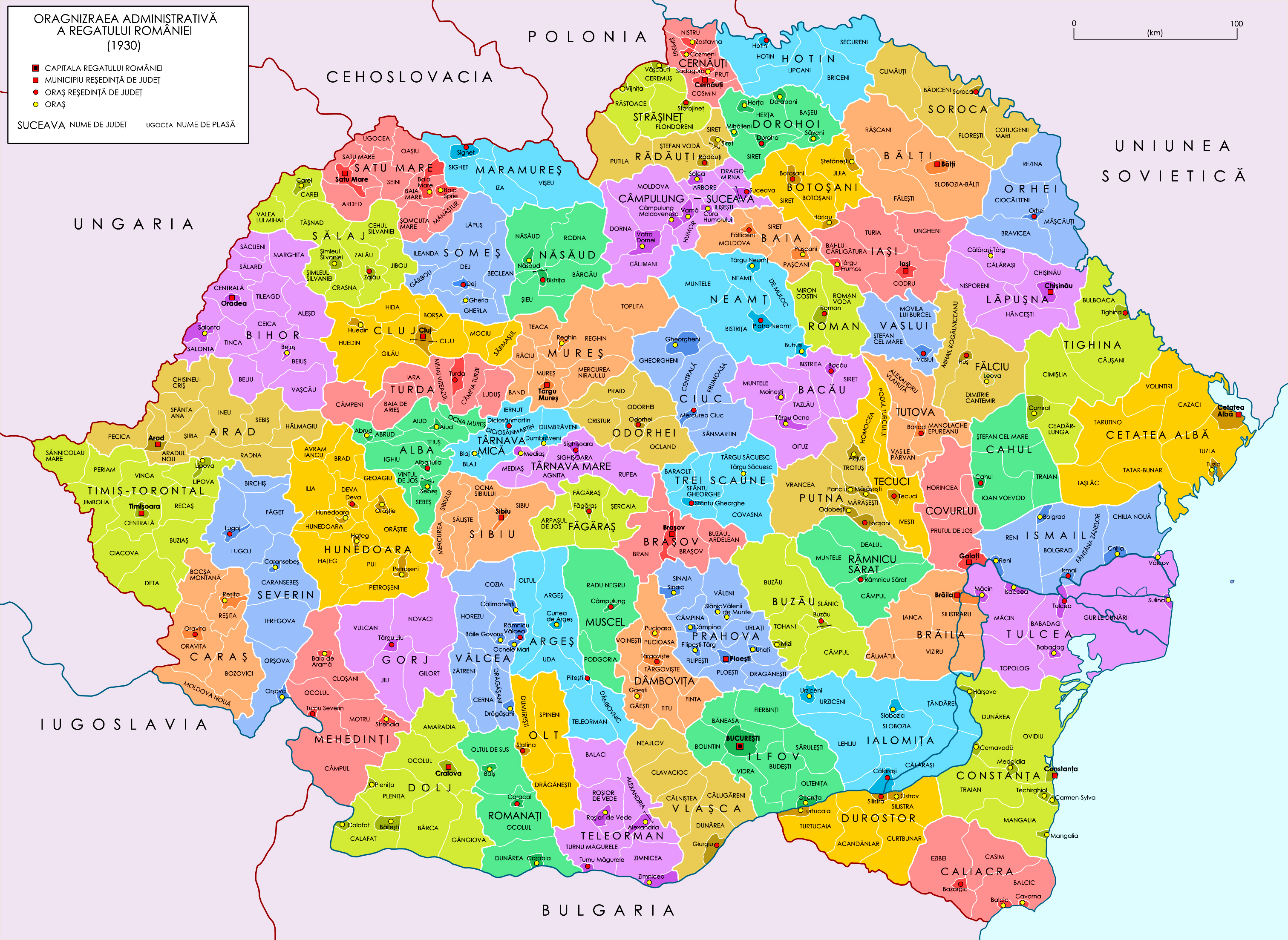 Judete of Rumania, 1939